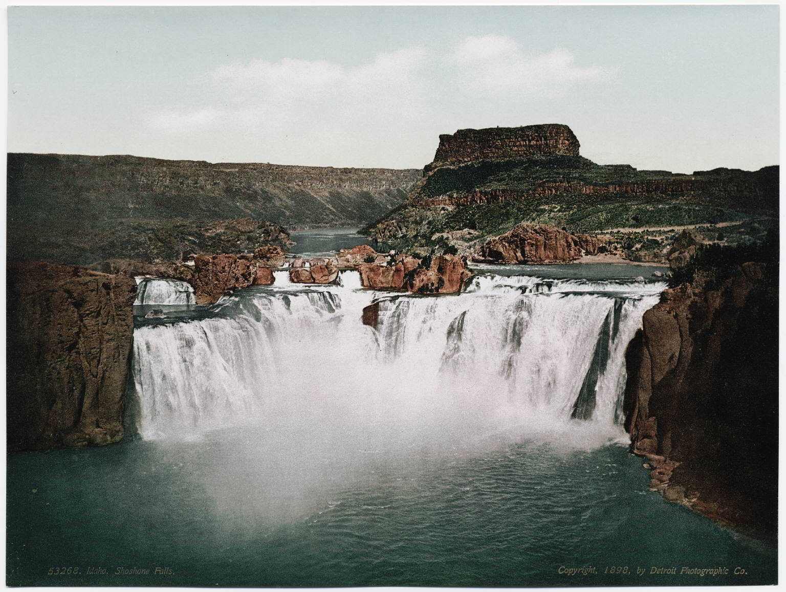 Idaho, Shoshone Falls. A photochrom postcard published by the Detroit Photographic Company.